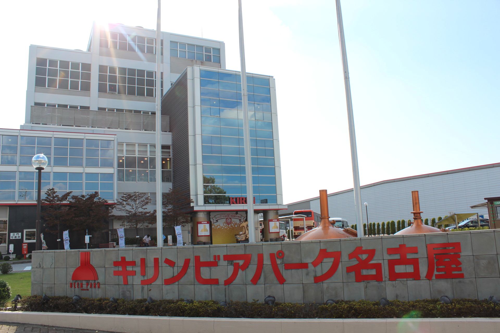 KIRIN BEER PARK Nagoya